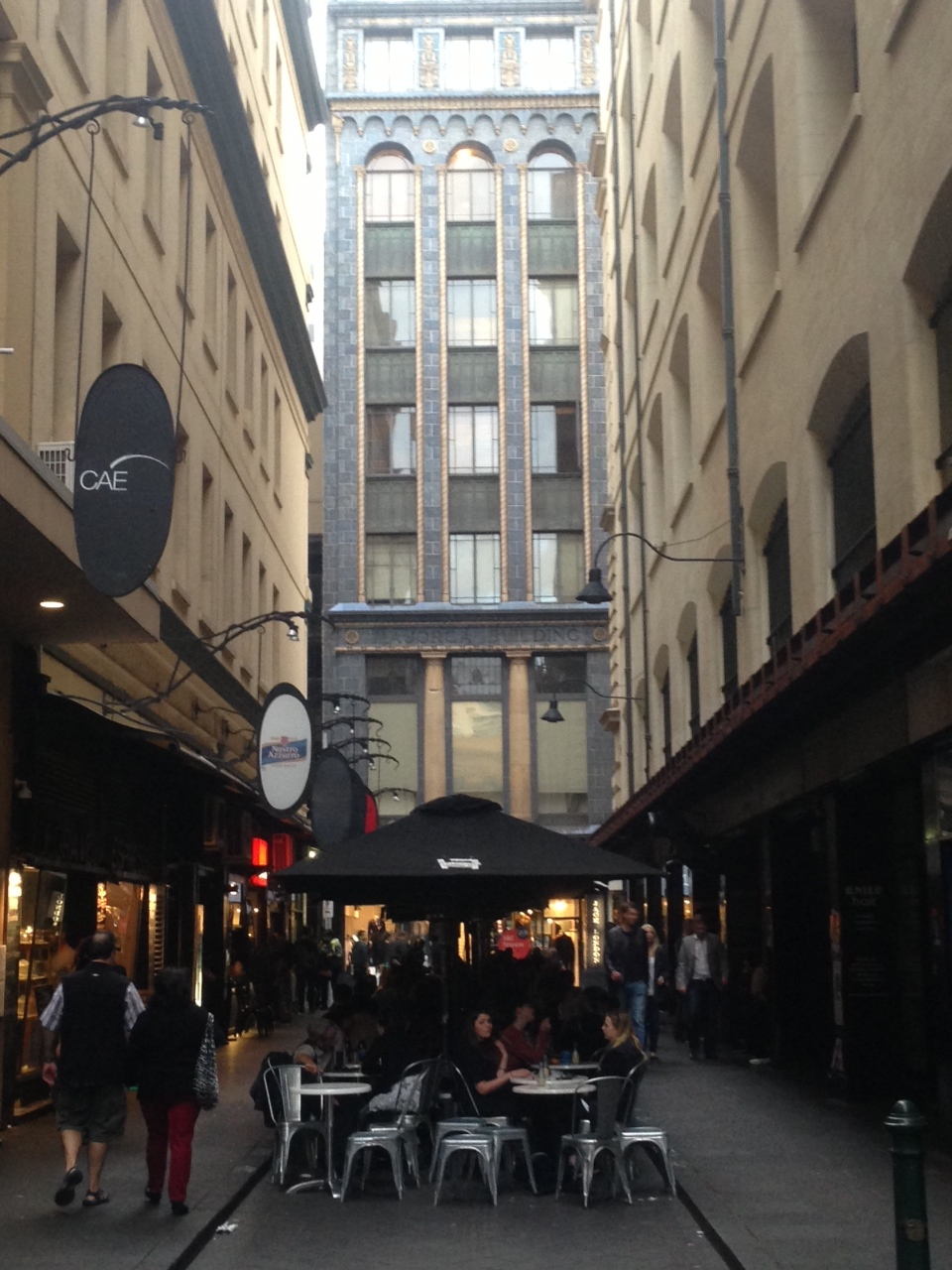 A view of the Majorca Building from Degraves street Melbourne